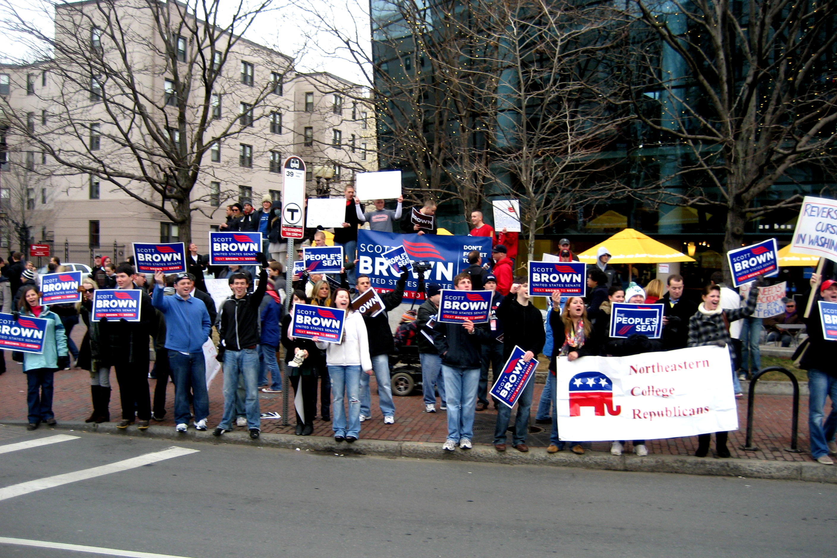 Supporters of U.S. Senate candidate Scott Brown line the side of Huntington Avenue during a visit by U.S. president Barack Obama at Northeastern University during which he campaigned for Martha Coakley.